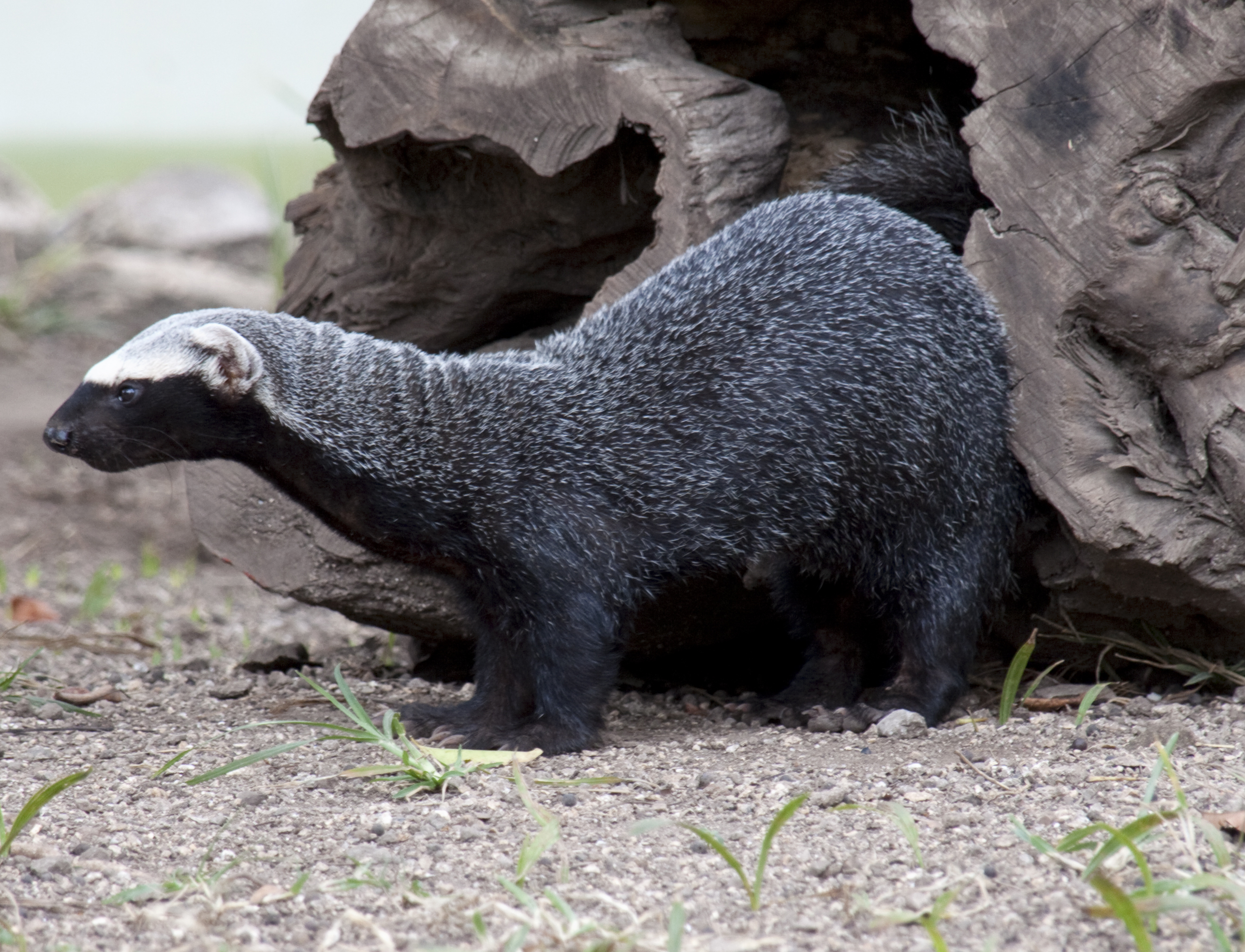 Great Grison